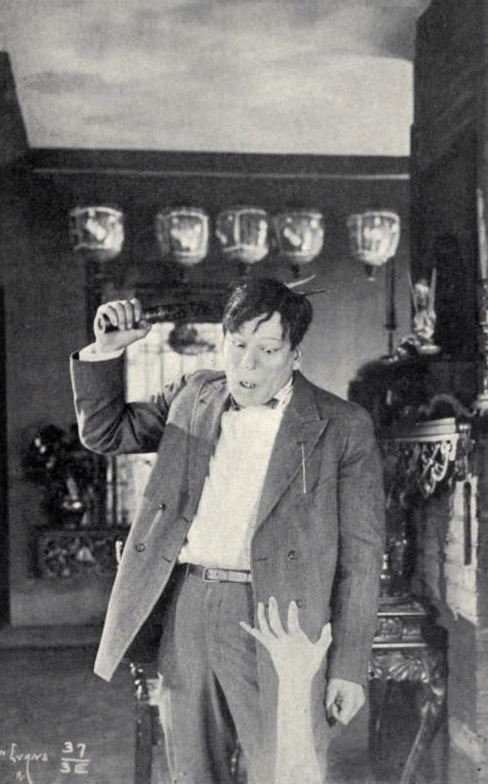 Still from the American drama film Bits of Life (1921) with Lon Chaney, on page 179 of Screen Acting.